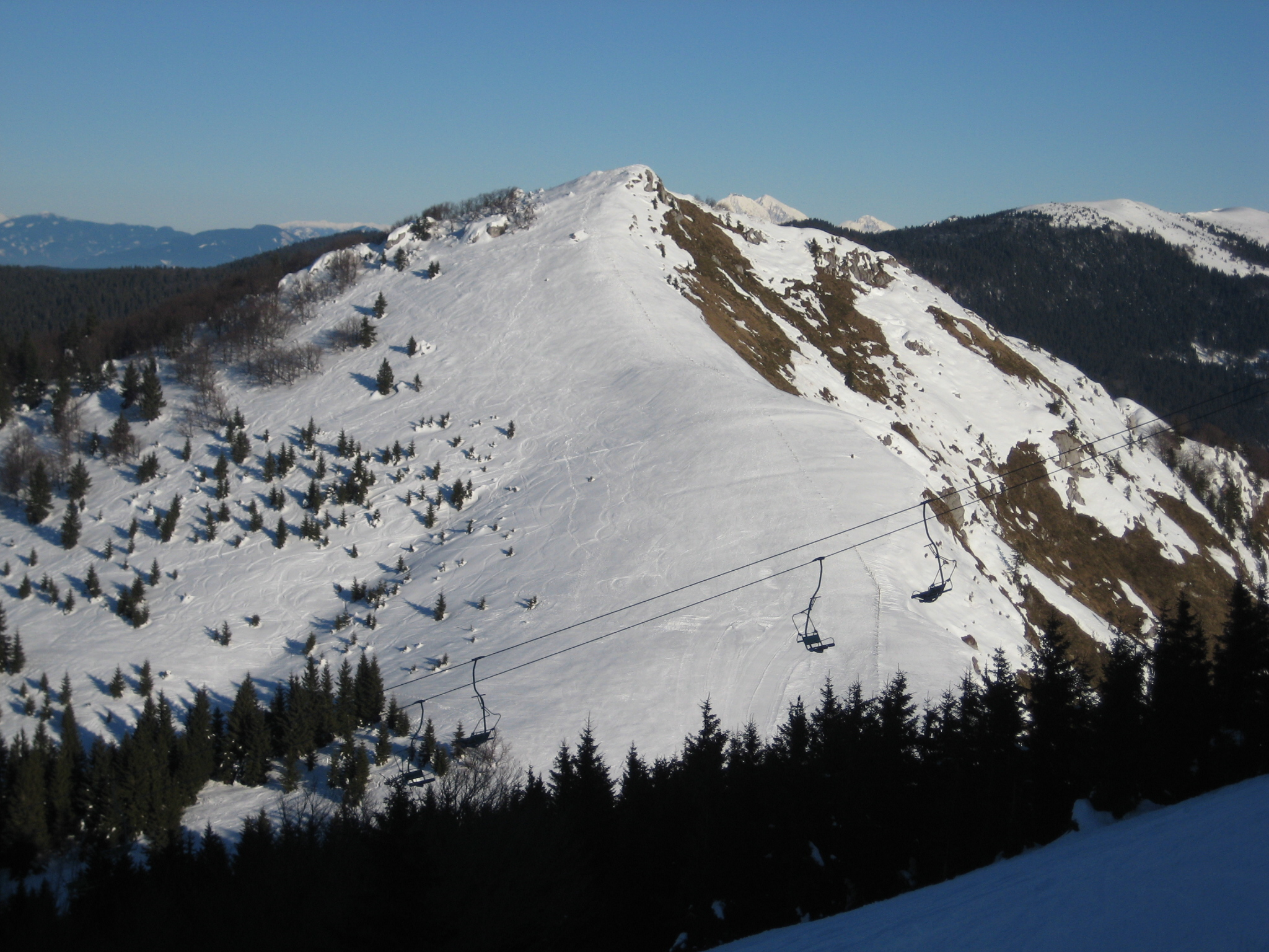 Dravh, mountain in Slovenia (above Sorica ski resort)